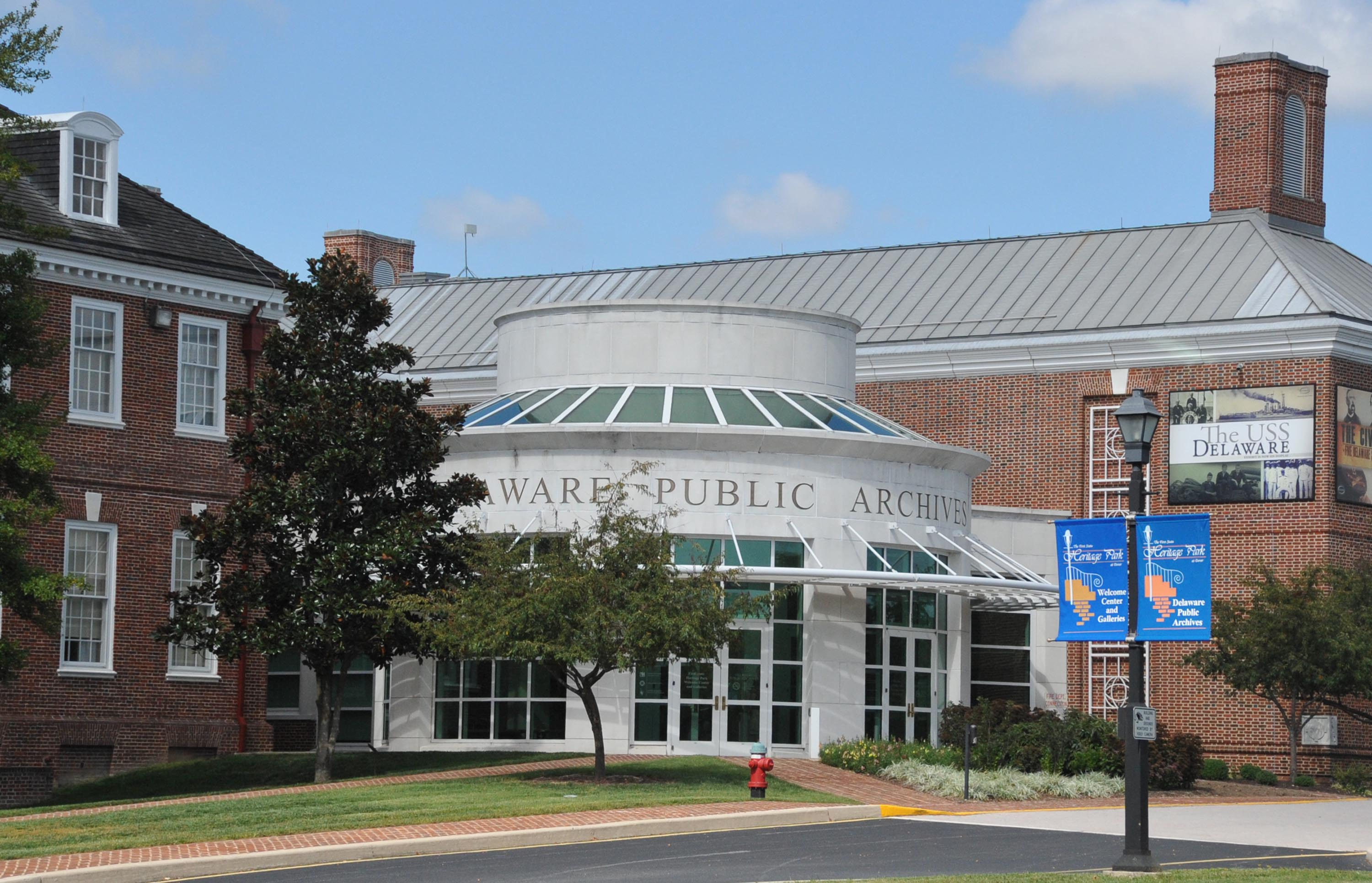 DELAWARE PUBLIC ARCHIVES BUILDING WITH RESEARCH MATERIAL DATING BACK TO THE 1600s